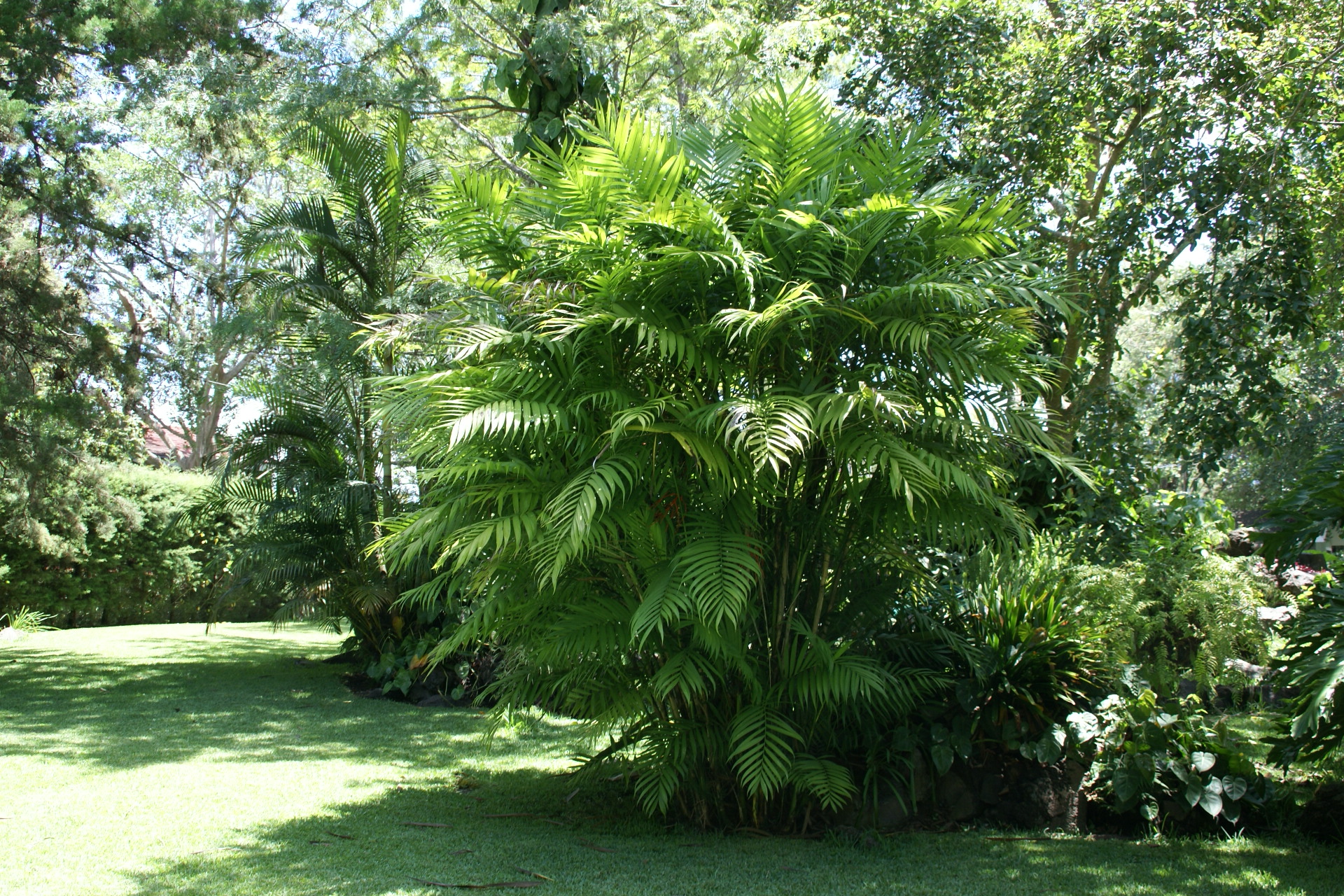 Pacaya palm (chamaedorea tepejilote) taken at Atitl´na Lake in Guatemala